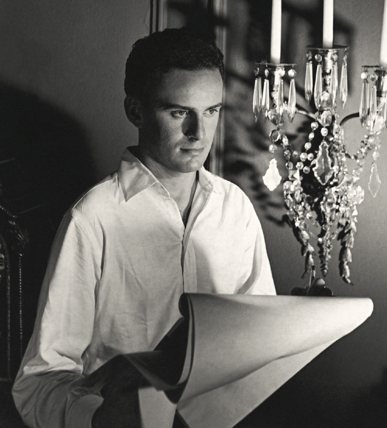 Portrait of Jerimiah Goodman in New York City, 1956.